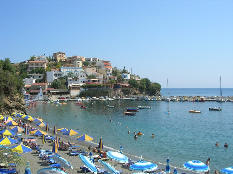 Bali, Greece